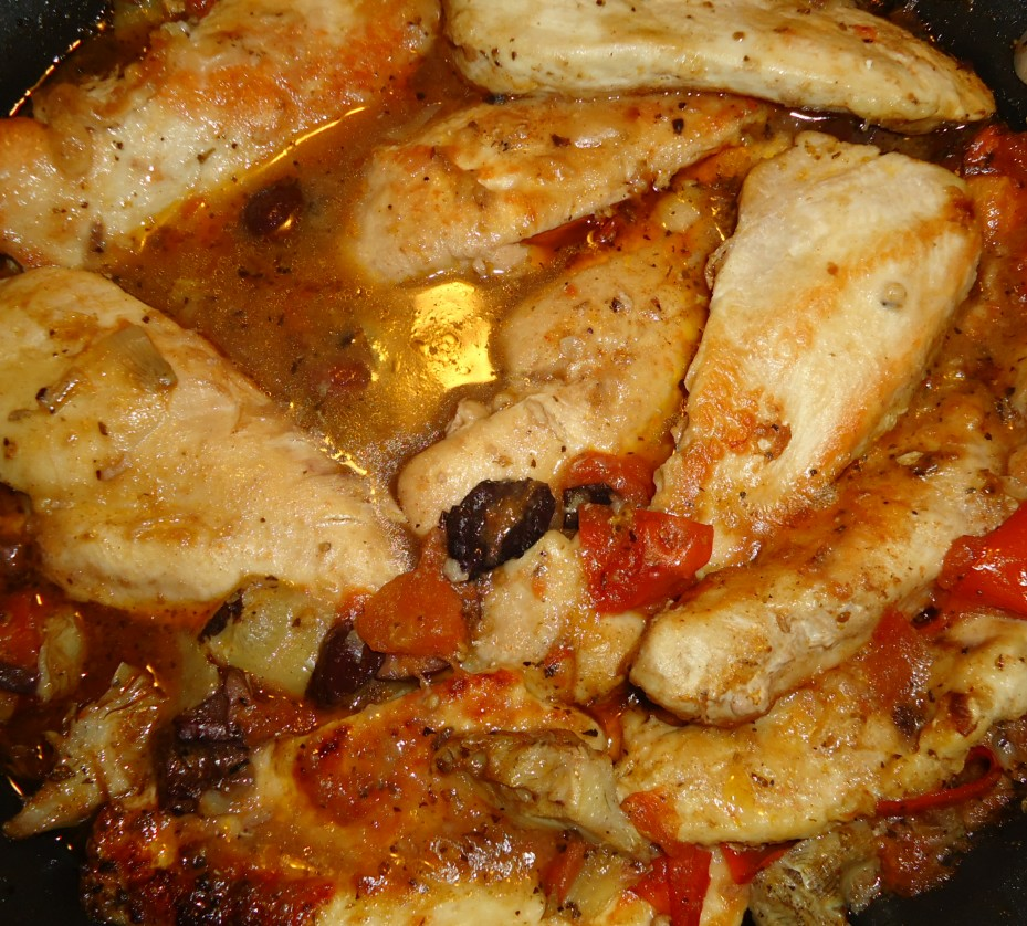 Chicken dish cooking on the stove, with tomatoes, onions, spices.